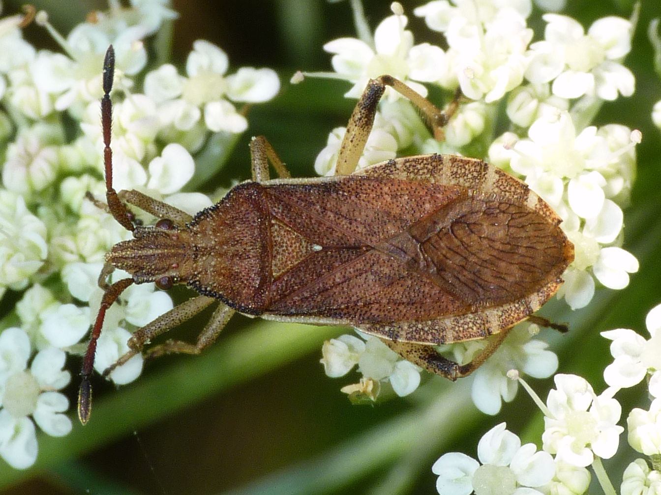 Ceraleptus lividus; Location: Limburg, Netherlands